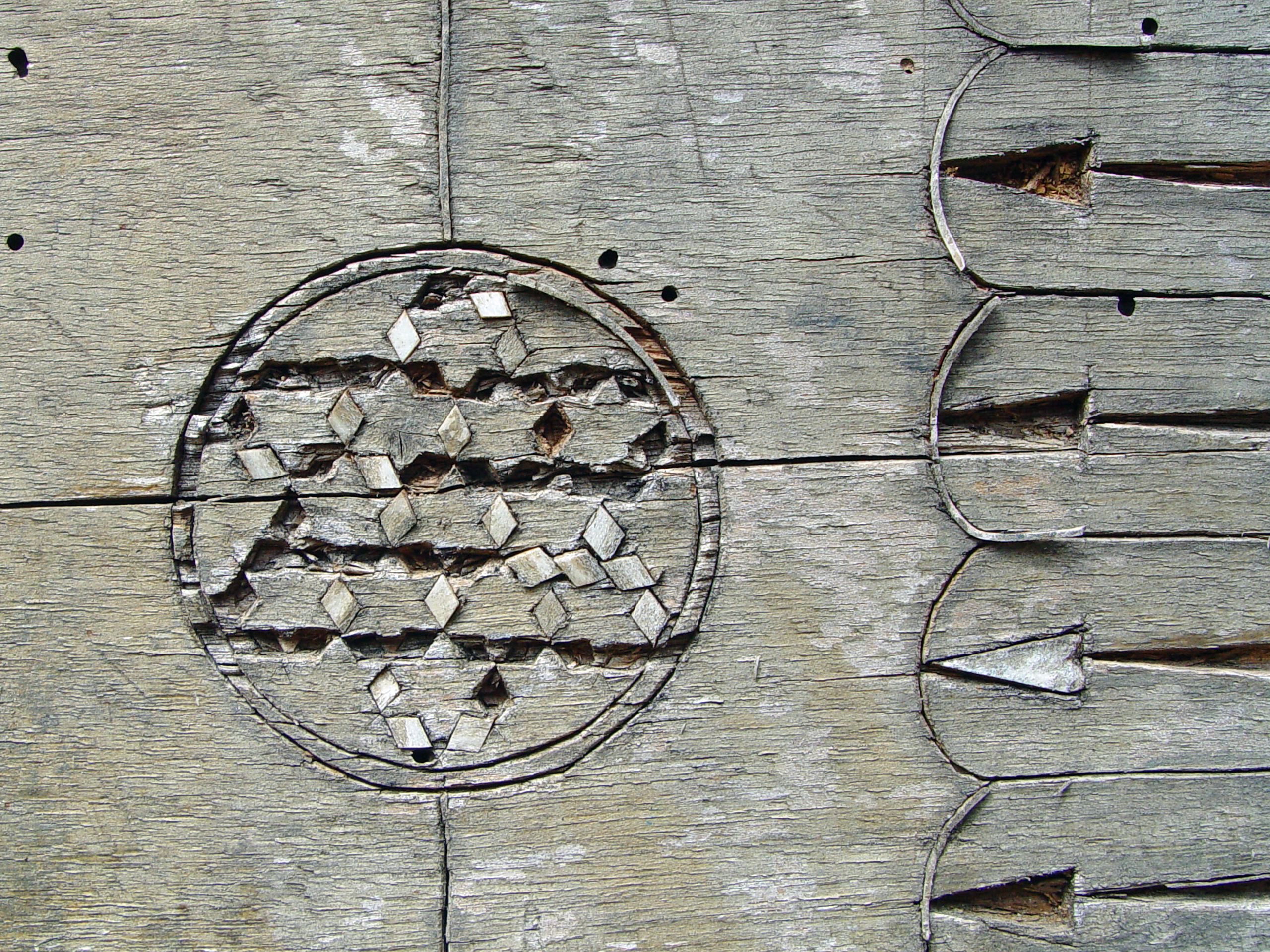 Inlay work decorating old chest at The Holy Monastery of St. Nicholas Anapausas (Μονή του Αγίου Νικολάου), Meteora, Greece